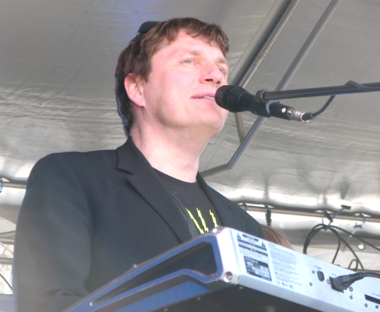 Antti Kammiste performing